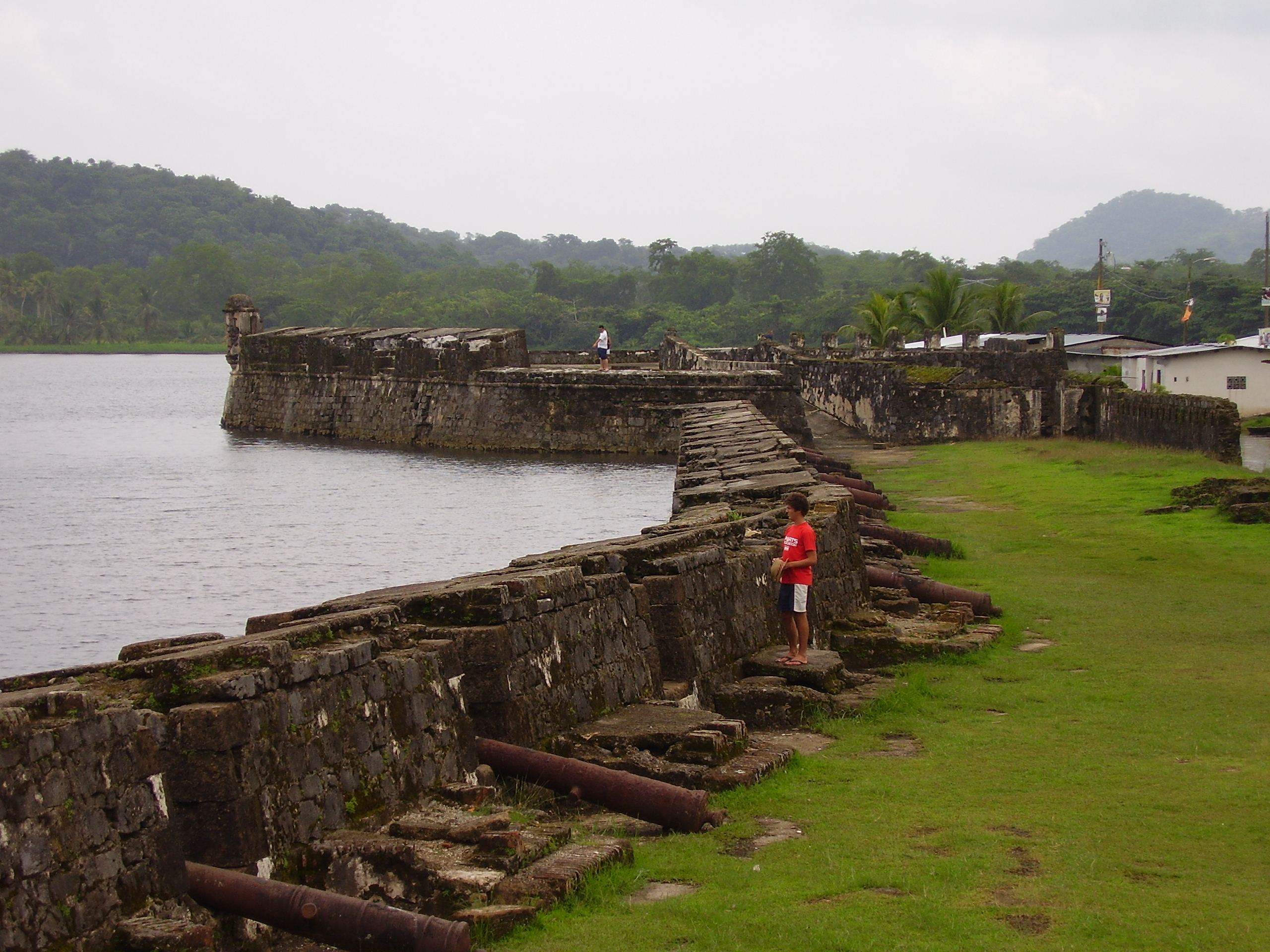 San Jeronimo Castle in Portobelo at the Atlantic Coast of Panama